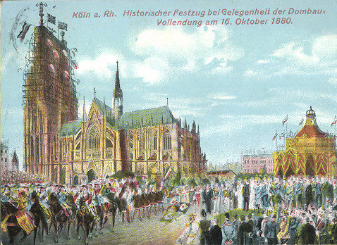 Historic defilée of 1880 in Cologne, on occasion of the finishing of Cologne Cathedral. Lithographic postcard, with stamp postmarked 1911.